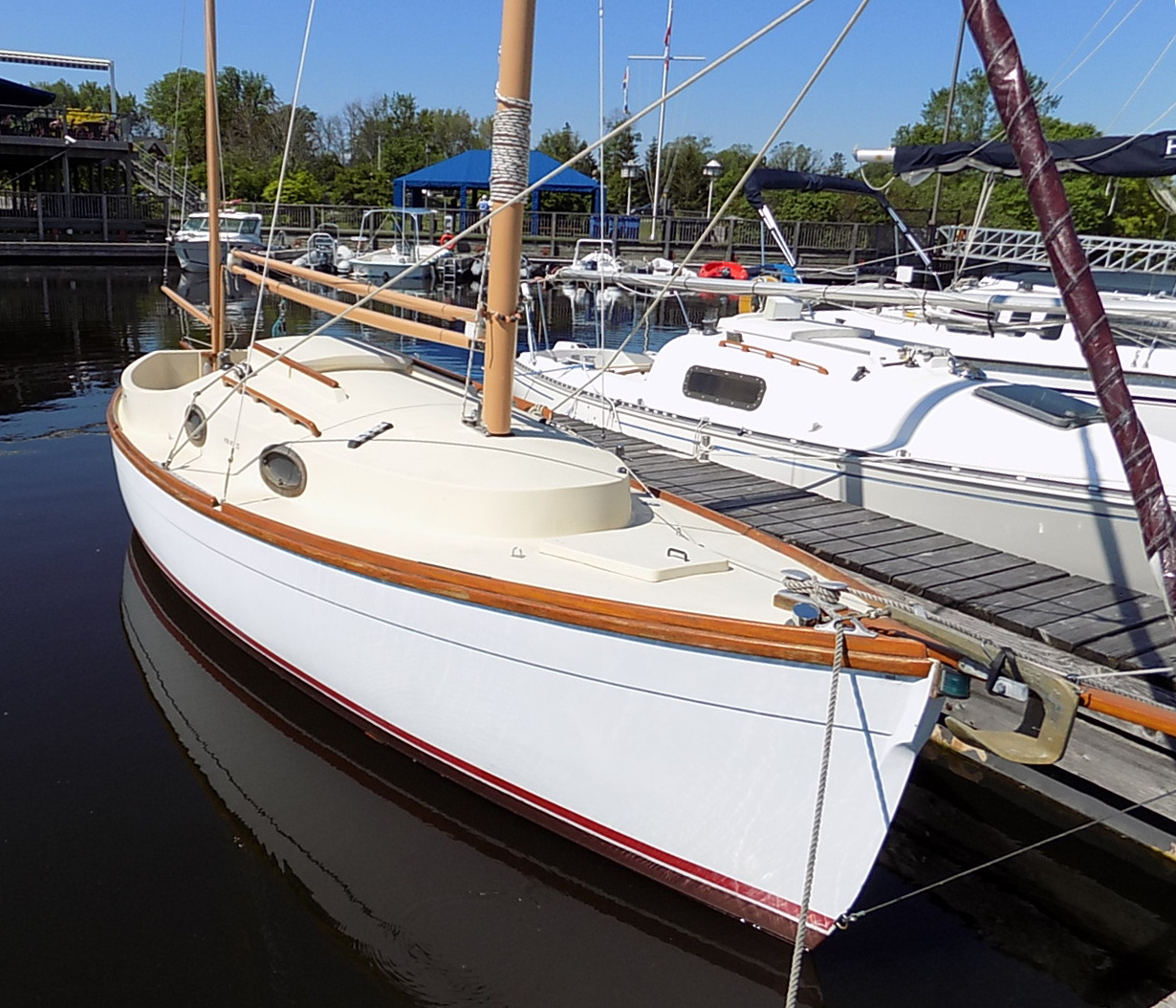 A Rob Roy 23 yawl named Chasse Maree.